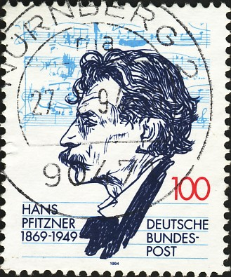 German stamp, showing composer Hans Pfitzner.